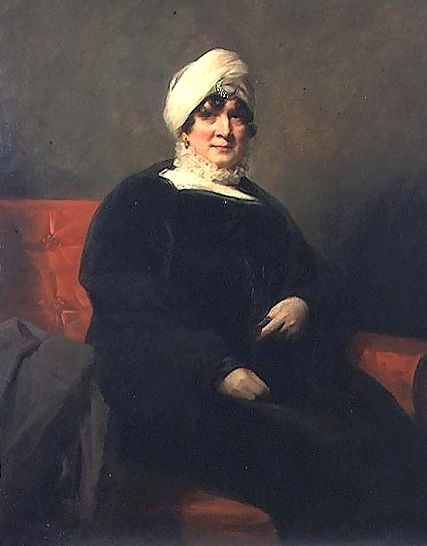 Louisa Campbell, Portioner of Bighouse, Mrs George Mackay, by Raeburn.